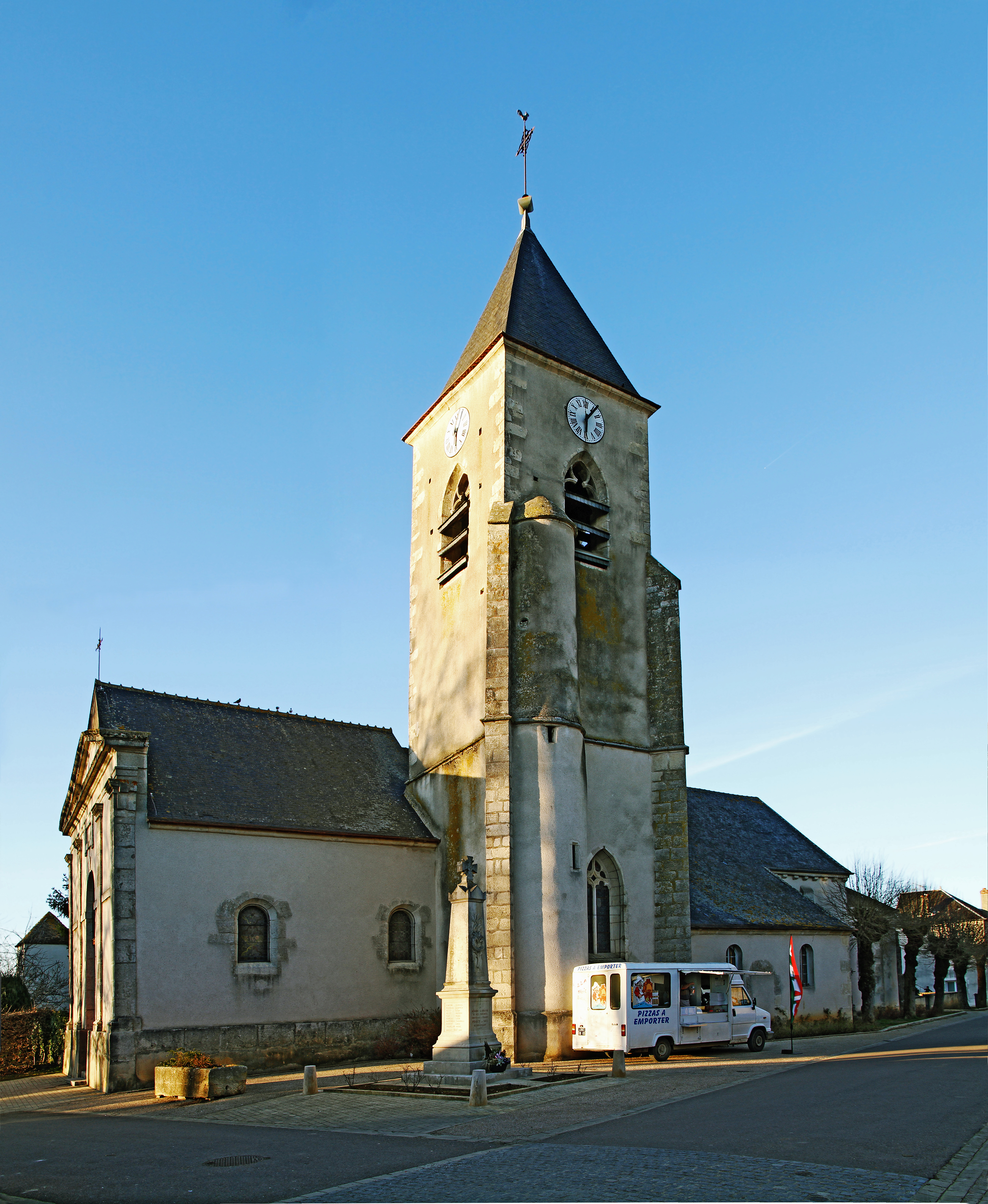 Église Saint-Paul de Précy-le-Sec